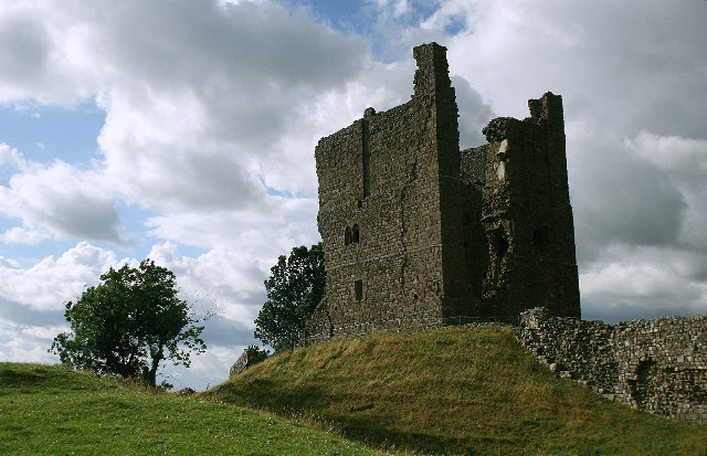 Brough Castle. Brough castle was built to the south of a Roman fort or camp, in this case called Verteris, which was built to keep the northern Brigantes tribe in check